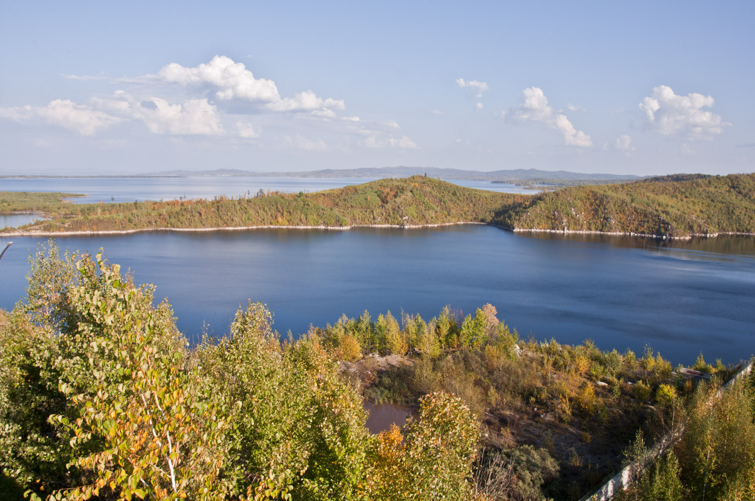 The Reservoir of Bureya Hydro Power Plant